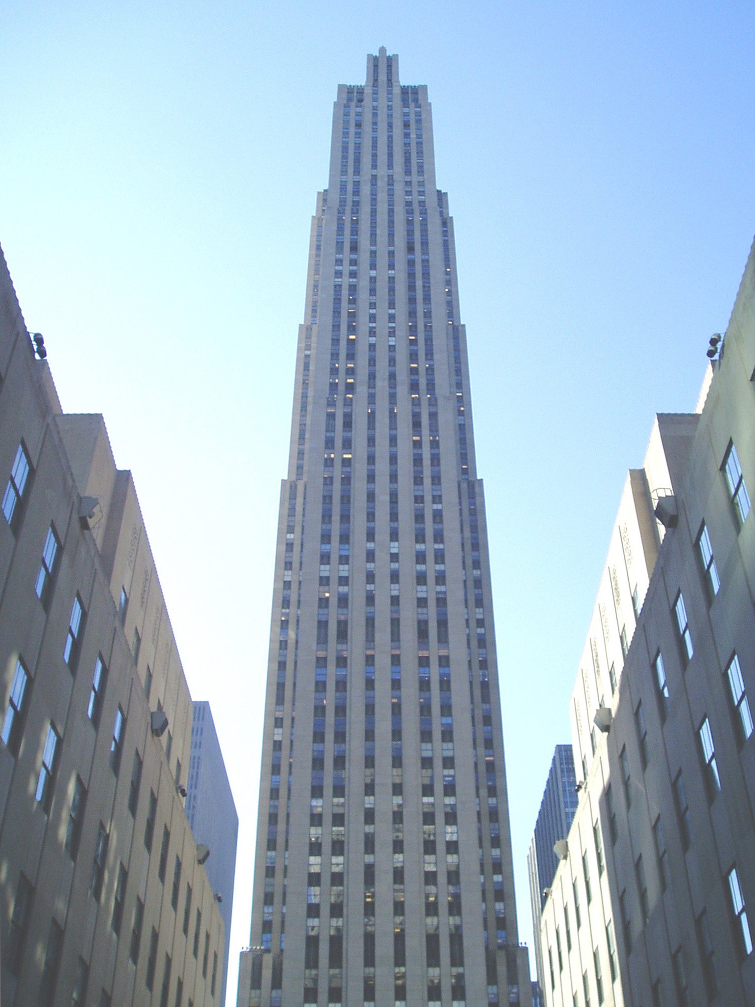 Rockefeller Center on September 9, 2005.